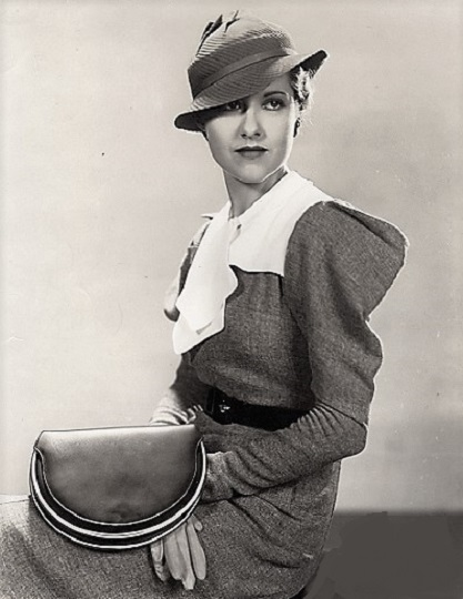 Dorothy Wilson